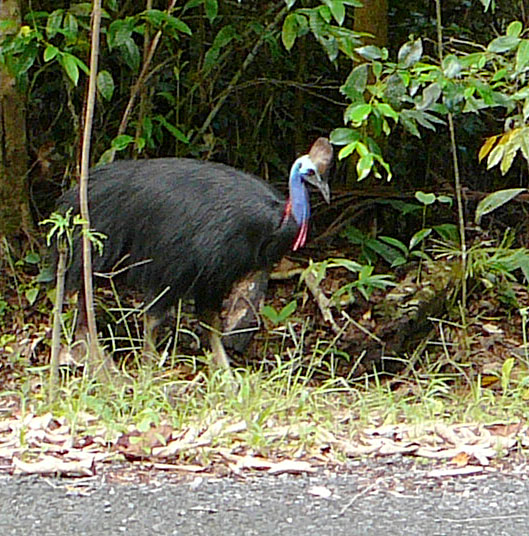 Southern Cassowary (also known as Double-wattled Cassowary, Australian Cassowary or Two-wattled Cassowary) in Queensland, Australia.